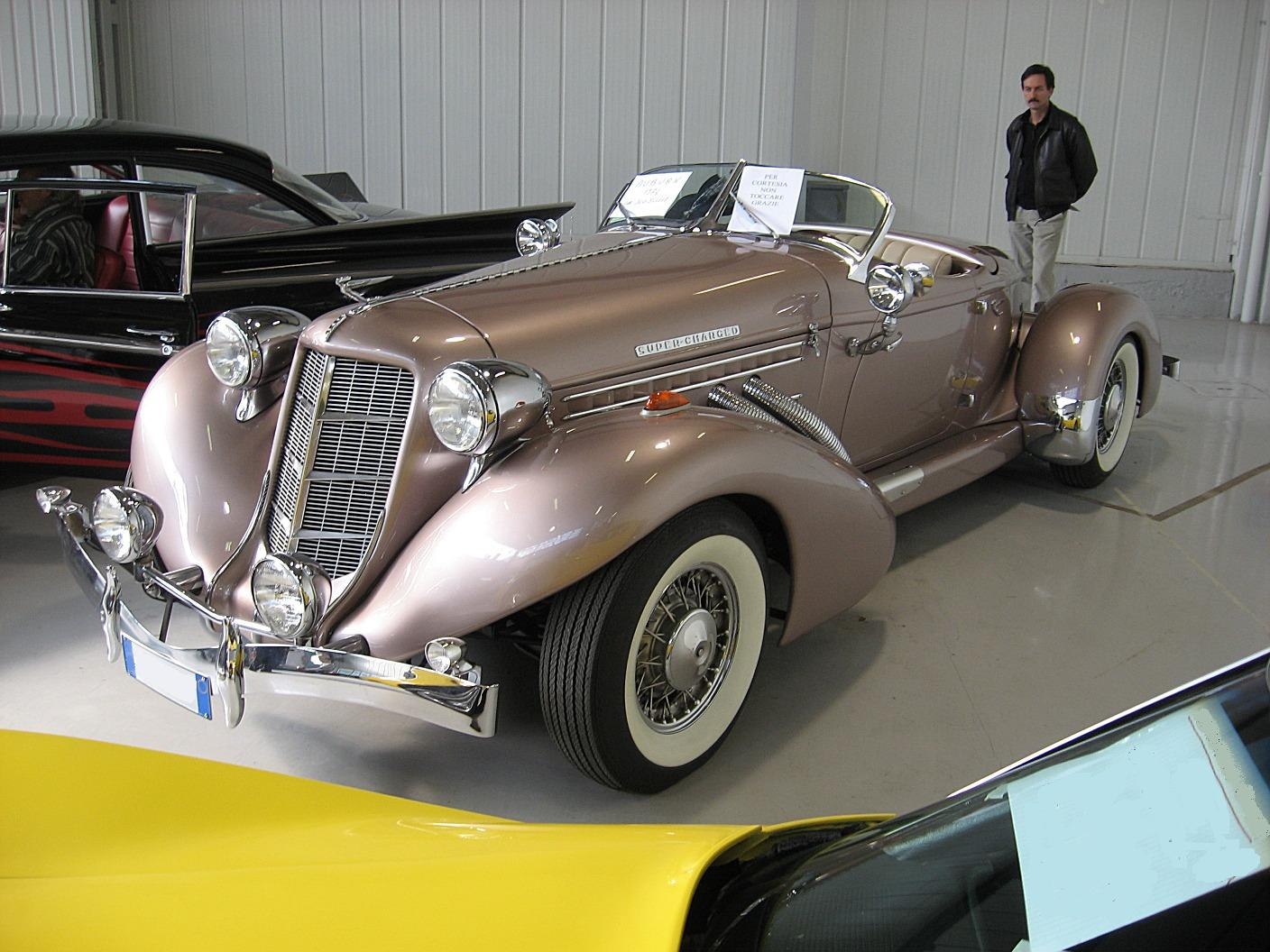 Subject:Replica of Auburn 851 Boattail Speedster Author:Luc106 Date:March 15th, 2007 Event:Old Timer Show 2008 Place/Country: Forlì, Italy I release all rights in the public domain.